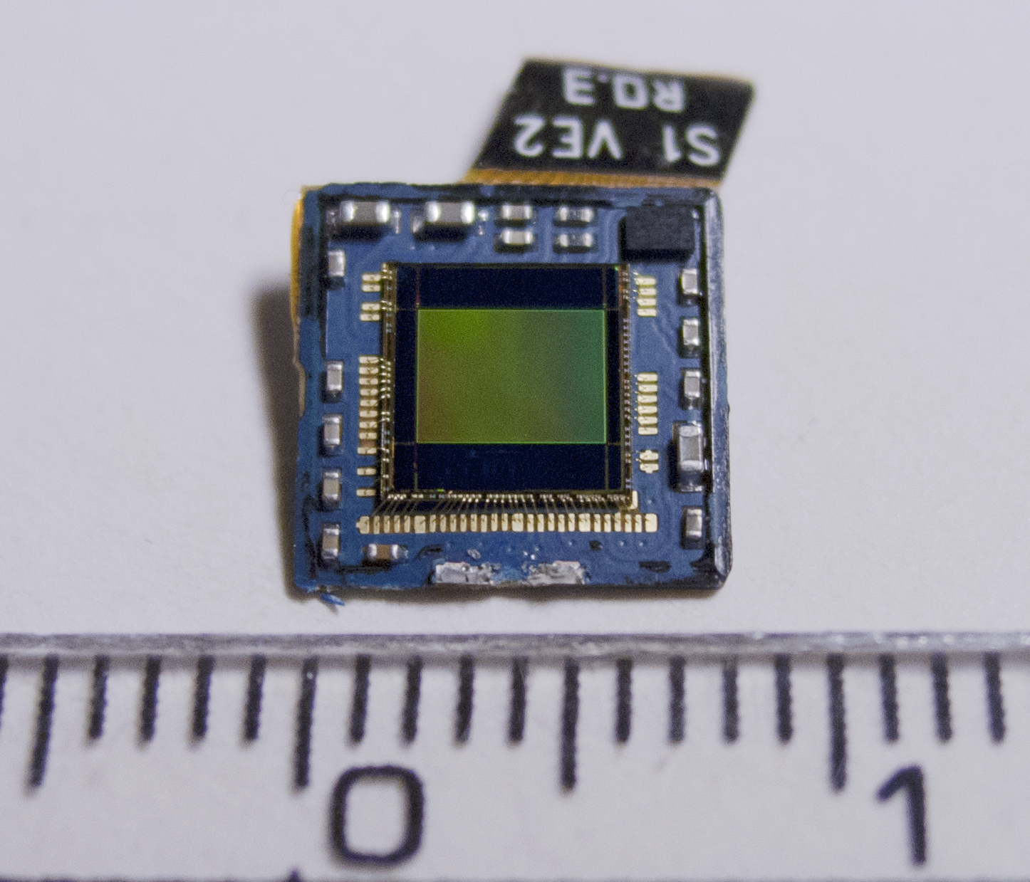 Samsung Galaxy S (i9000) camera with 1/3.6" type sensor (4mm × 3mm).Српски (ћирилица): Сензор смартфона Самсунг Галакси С је типа 1/3.6 инча, односно са страницама 4×3 милиметра. Сензор је неколико мањег обима него код комерциалних дигиталних фотоапарата.